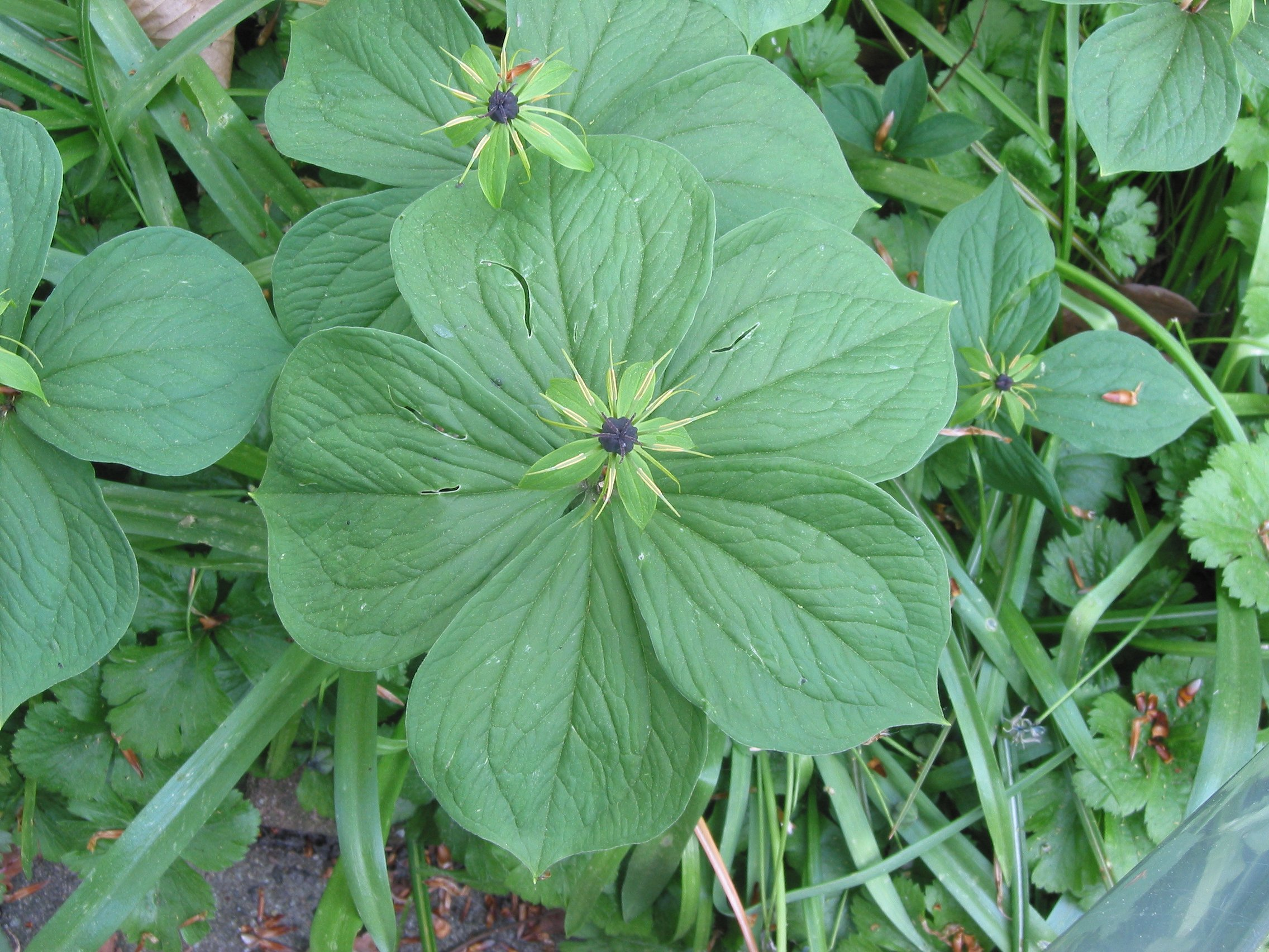 (Eenbes vijftallig) Paris quadrifolia with five leaves